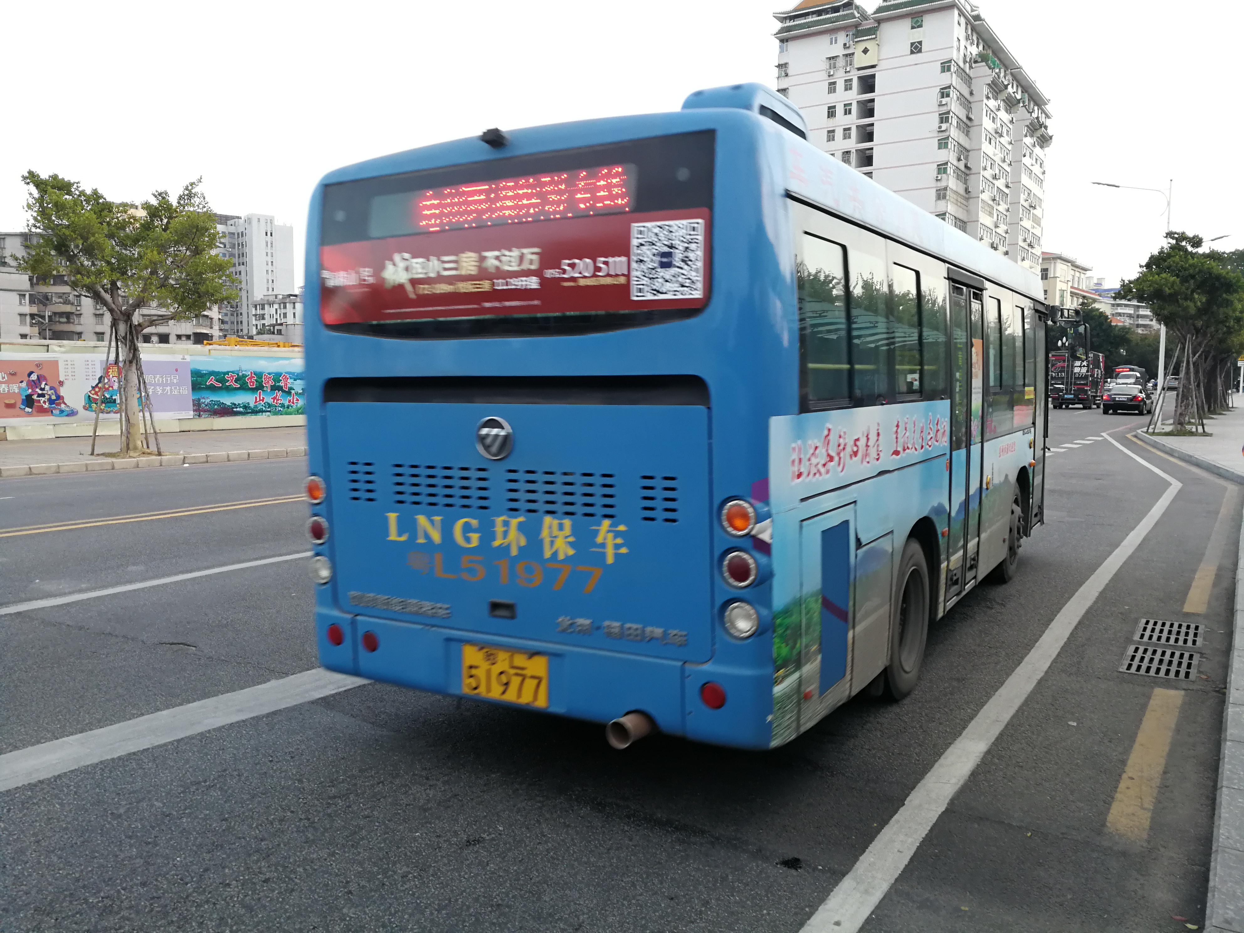 A Foton BJ6760C5MCB-1 bus which is powered by liquid natural gas and enlisting on Huizhou City Bus Corporation West Lake Feeder Line. The plate number of this bus is "粤L•51977" . The photo was taken at the bus stop of Xihu East Railway Station.